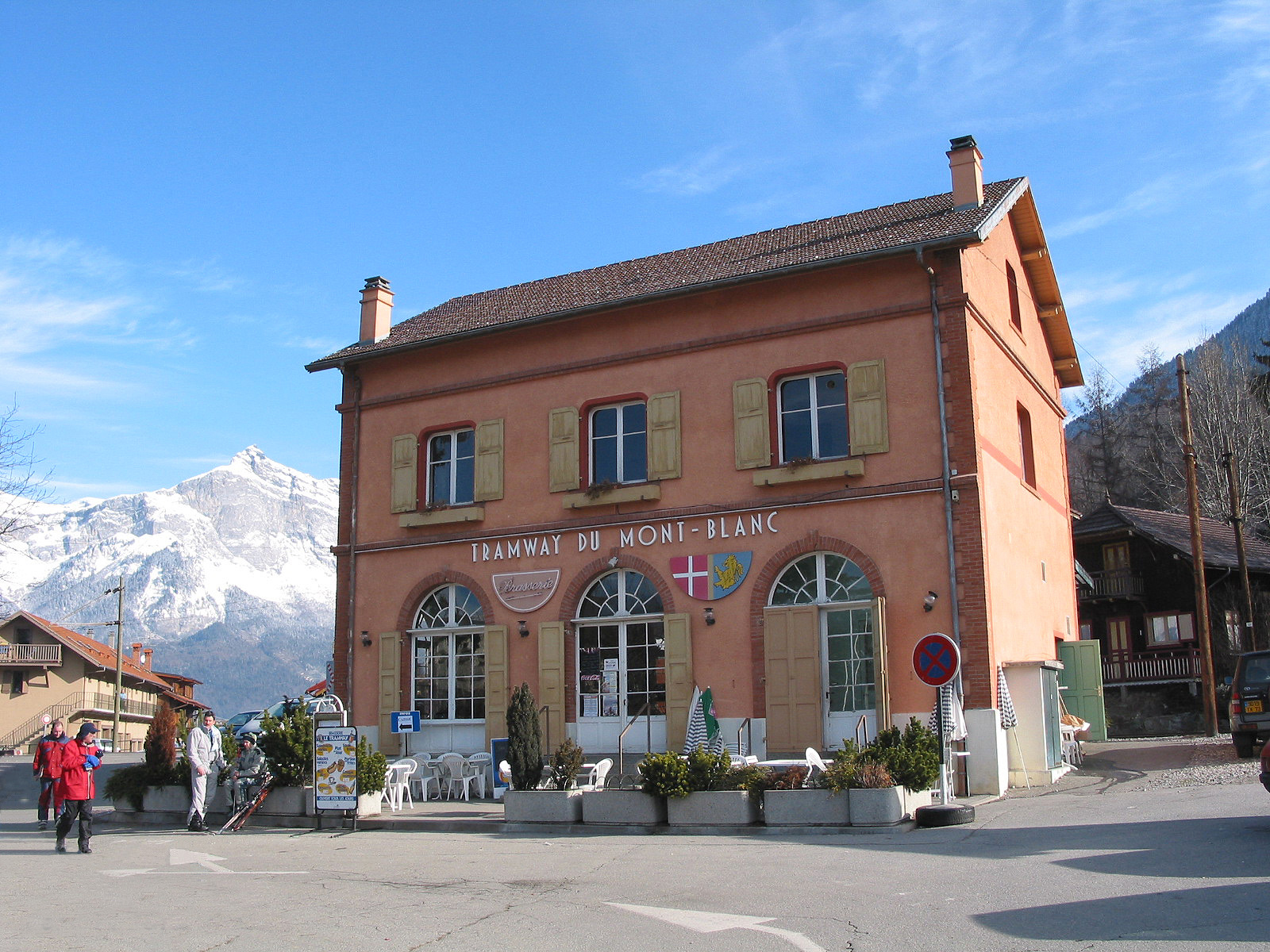 Saint-Gervais-les-Bains (France), the Mont Blanc tramway.